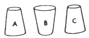 The three cups problem